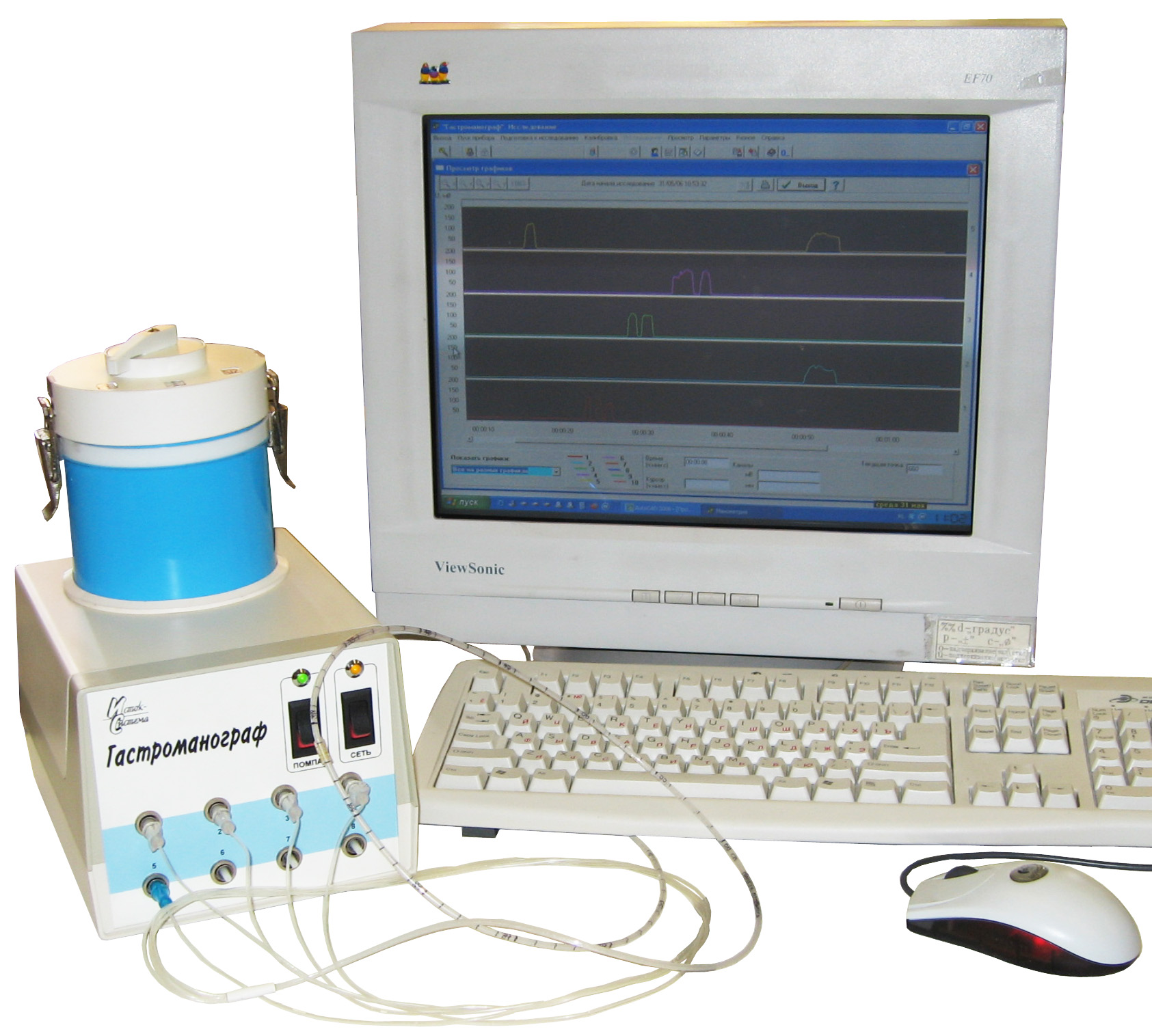 device for_perfusion_manometry